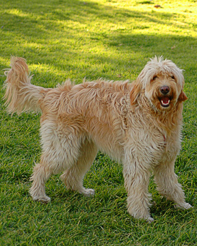 Image of a Labradoodle. The picture was taken by myself, the dog is mine, as is the picture. No licensing applies.